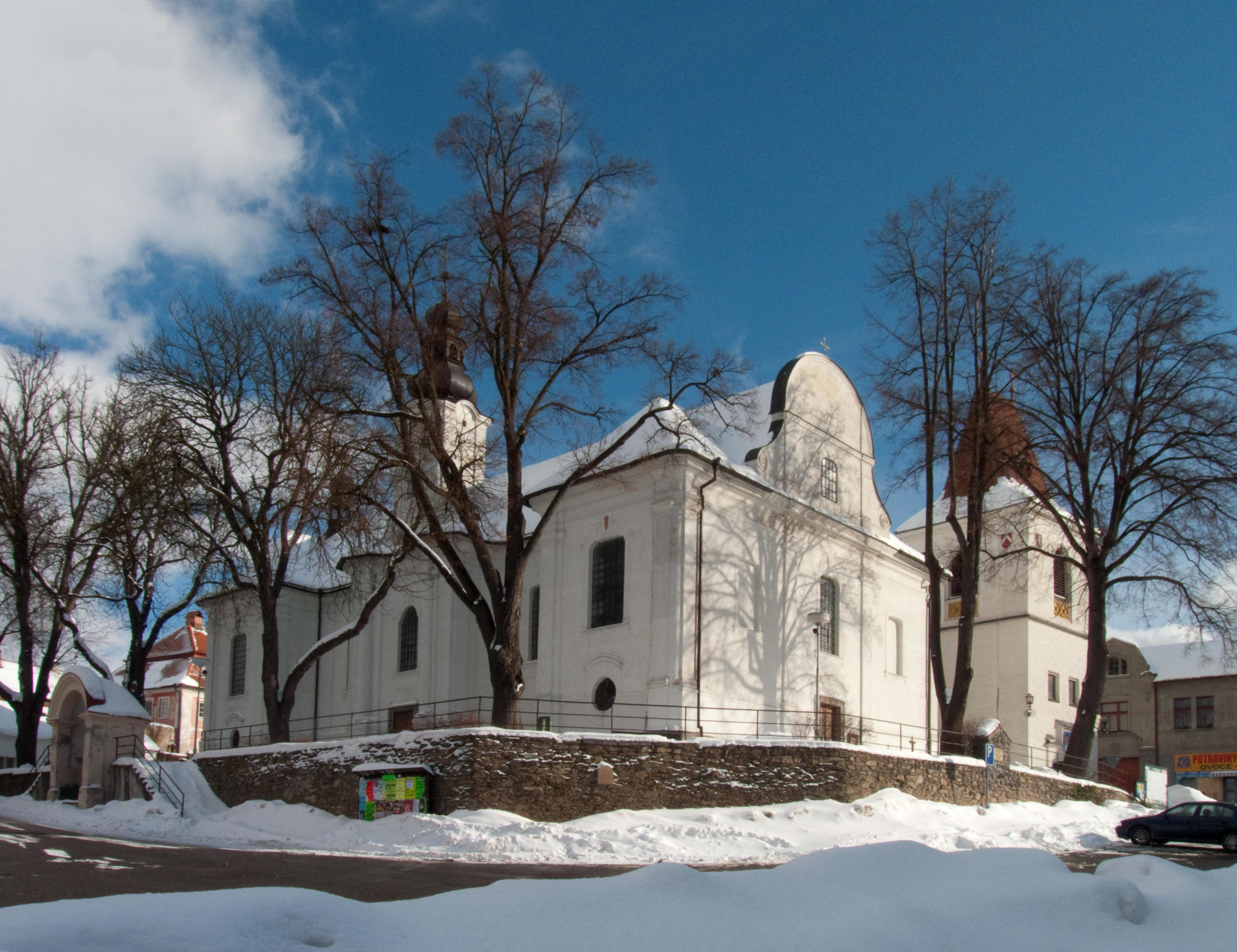 Winter view of St Martin church in Mladá Vožice, Tábor District, Czech Republic